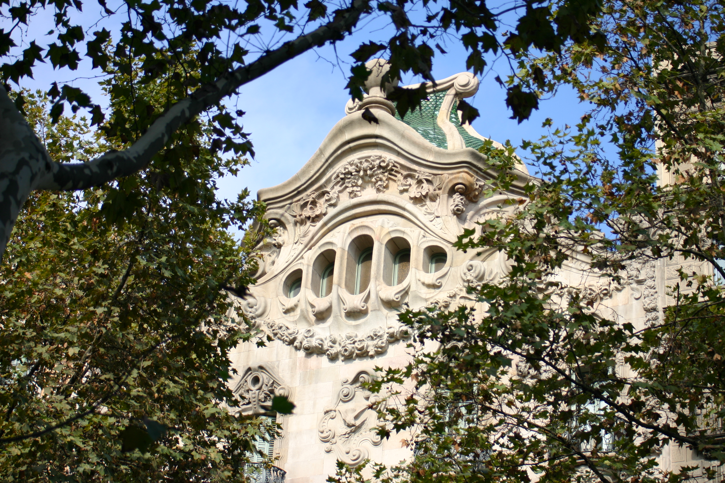 Casa Comalat Av. Diagonal, 442 i Còrsega, 316 Photography Author: User:Yearofthedragon Note: Architect:Salvador Valeri i Pupurull City:Barcelona